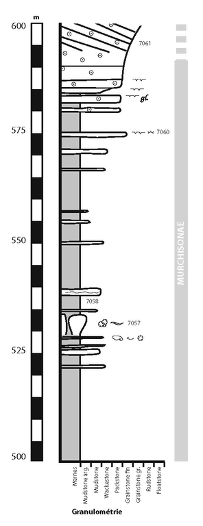 Exemple de log géologique succinct (Aalénien du Maroc)